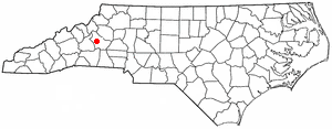 Category:North Carolina Dot Maps